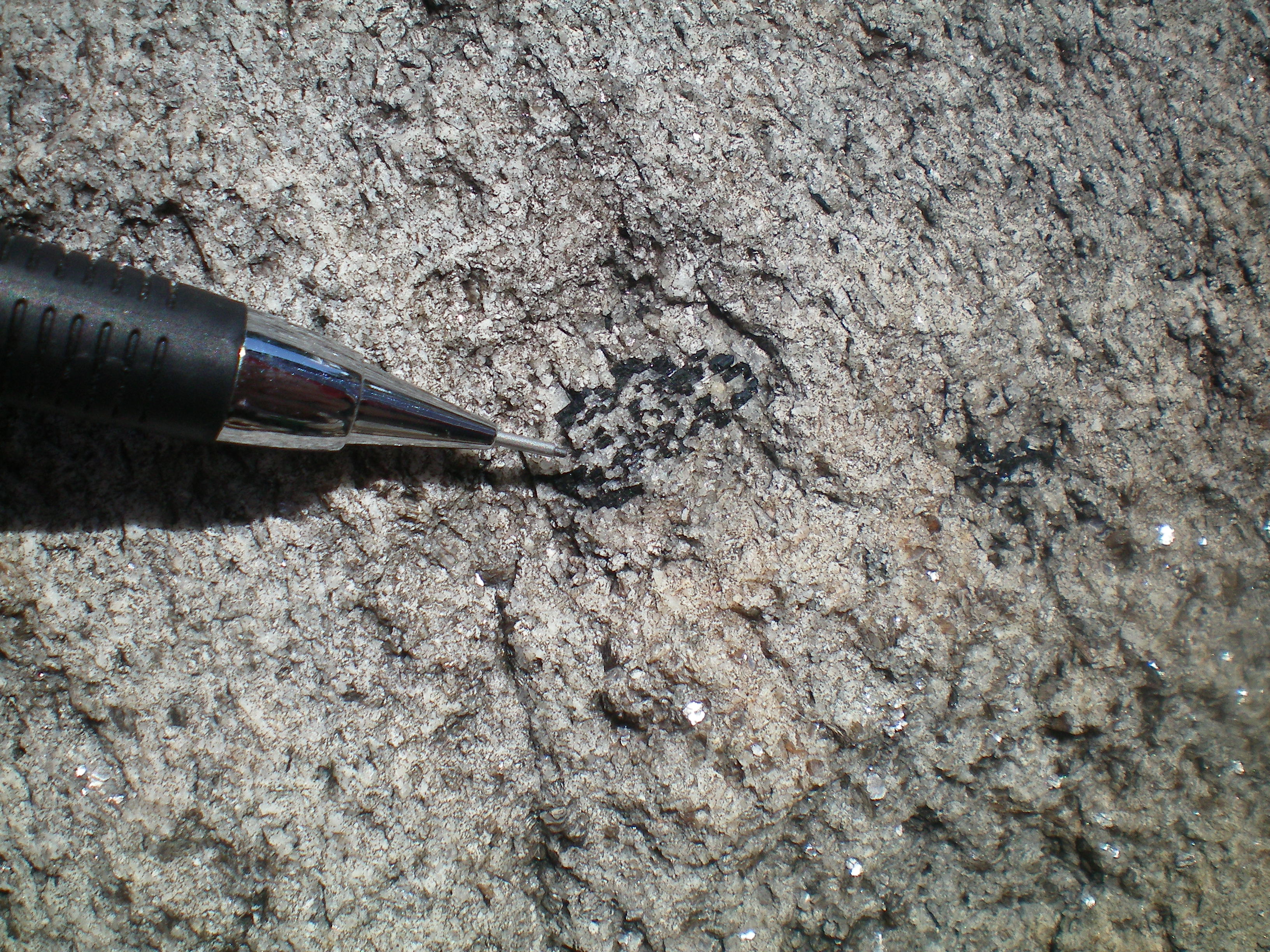 Porphyry